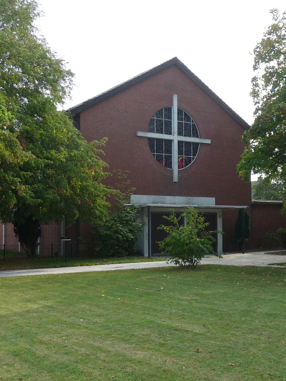 kath. church in Bremen-Blumenthal